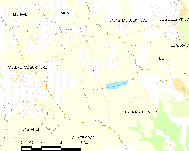 Map of French municipality Mailhoc